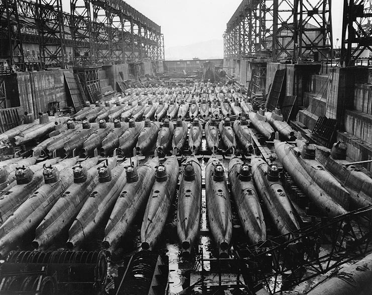 US Navy Historical Center caption : "Japanese Type D ("Koryu") Midget Submarines In a drydock at Kure Naval Base, Japan, 19 October 1945. There are at least four different types of midget submarines in this group of about eighty-four boats, though the great majority are of the standard "Koryu" type. The two boats at right in the second row appear to have an enlarged conning tower and shortened hull superstructure. The two boats at left in that row are of the earlier Type A or Type C design, as are a few others further back in the group."